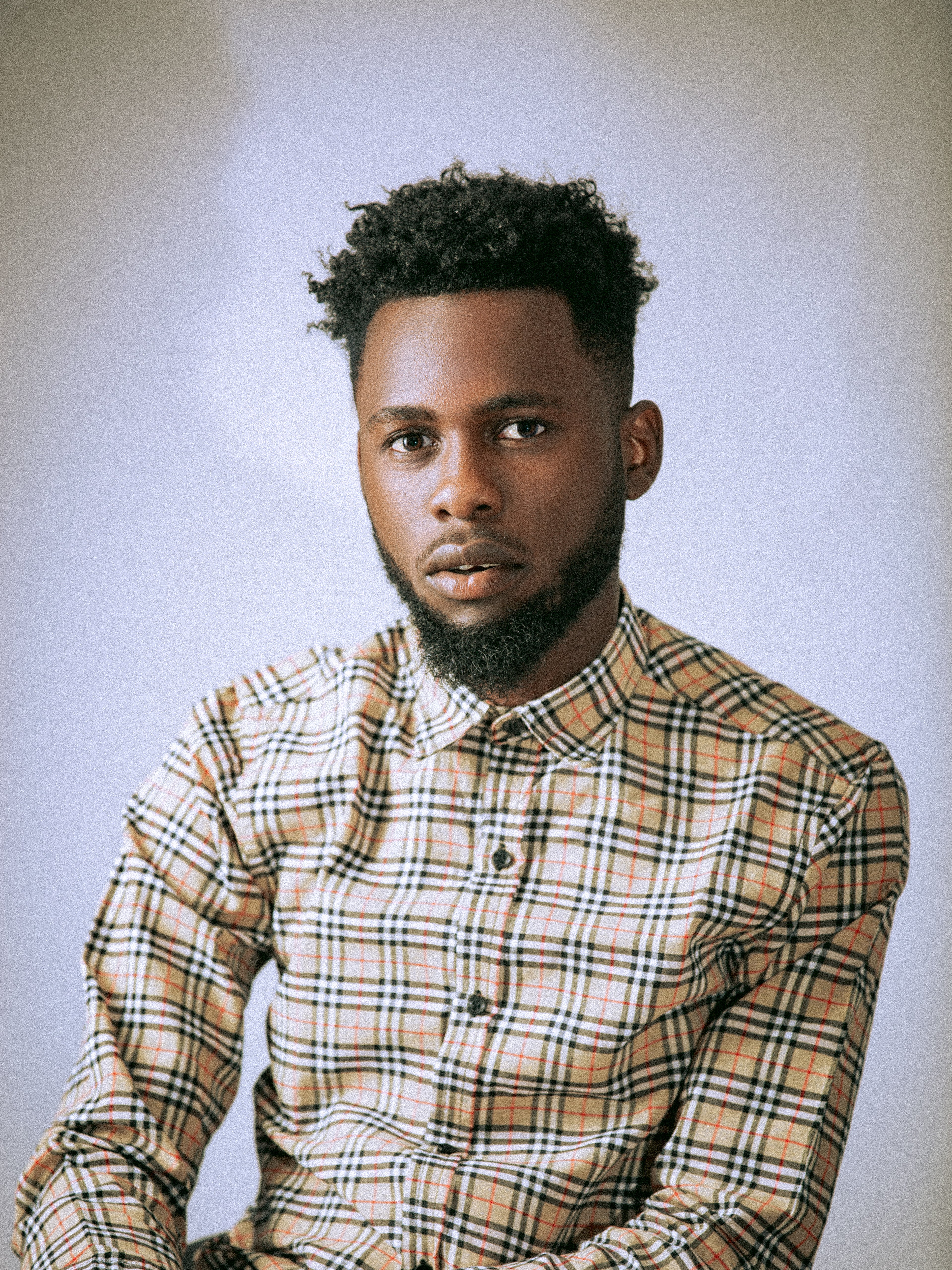 Miracle Kelechi Chike in a portrait photo with a Burberry cloth